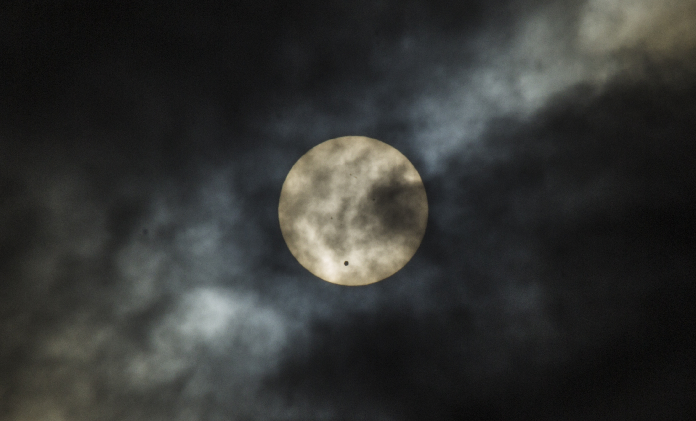 Transit of Venus as viewed in Melbourne, Australia, at approximately 11:05:36 local time (01:05:36 UTC).